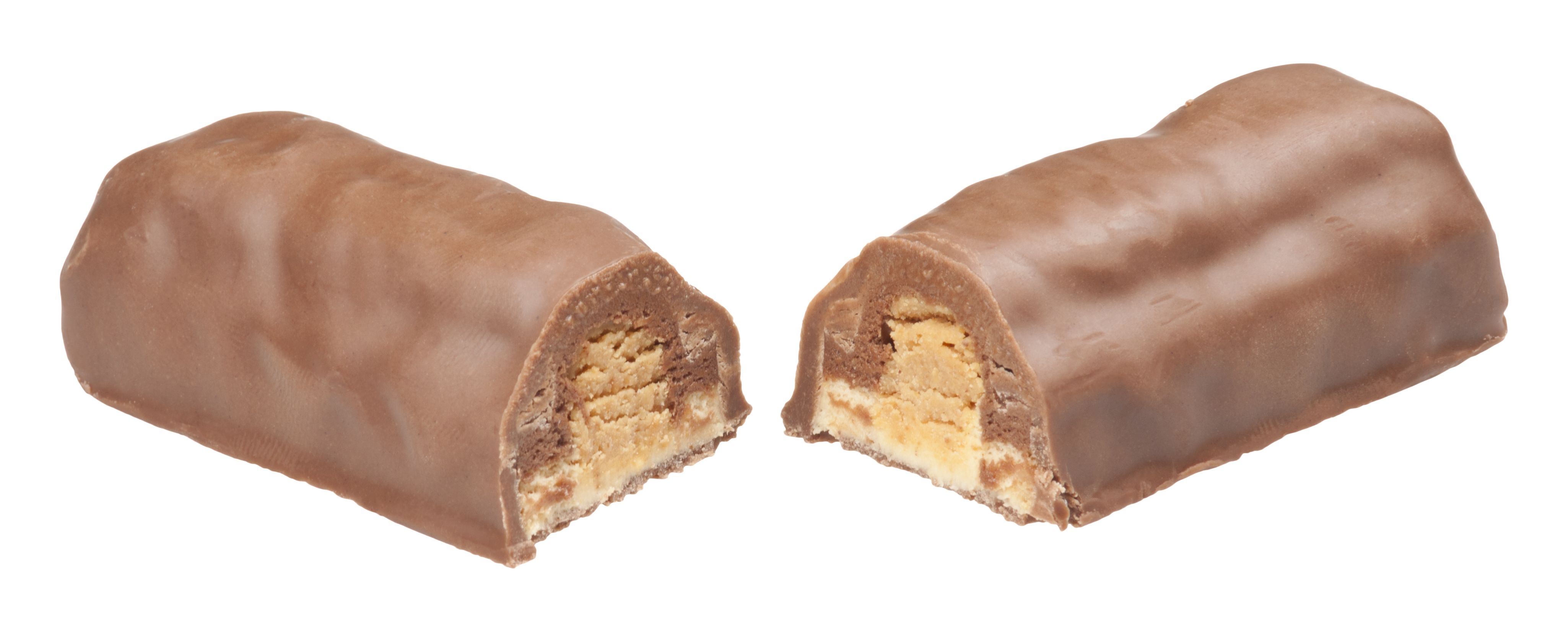 A Reese's Fast Break candy bar, shown broken open. It is peanut butter and nougat wrapped in milk chocolate.